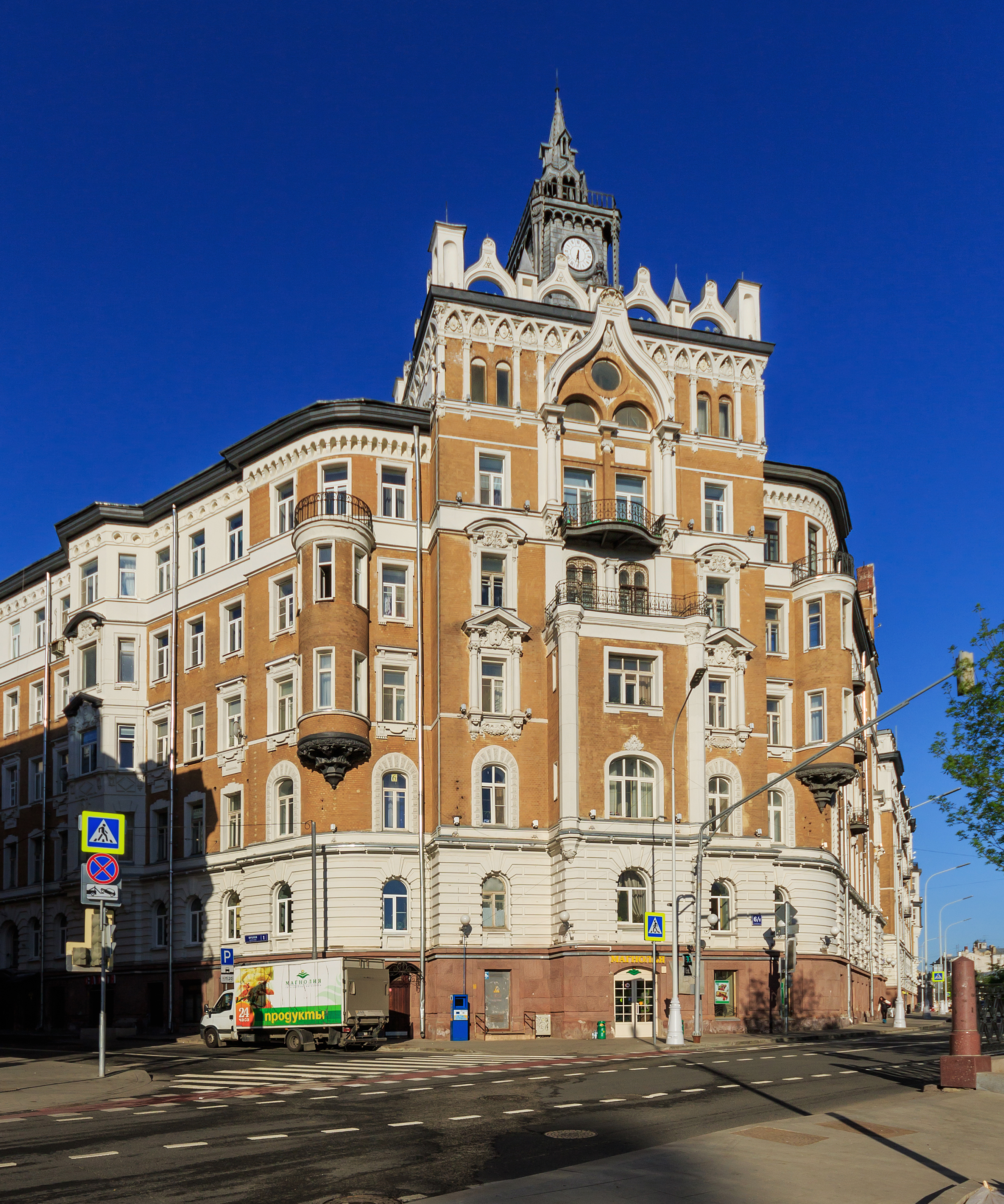 Building at Sretensky Bvd 6 / Frolov Lane 1 in Moscow (Russia).